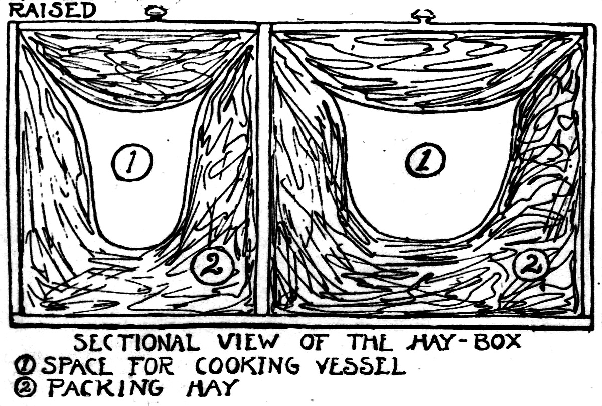 Sectional view of a haybox